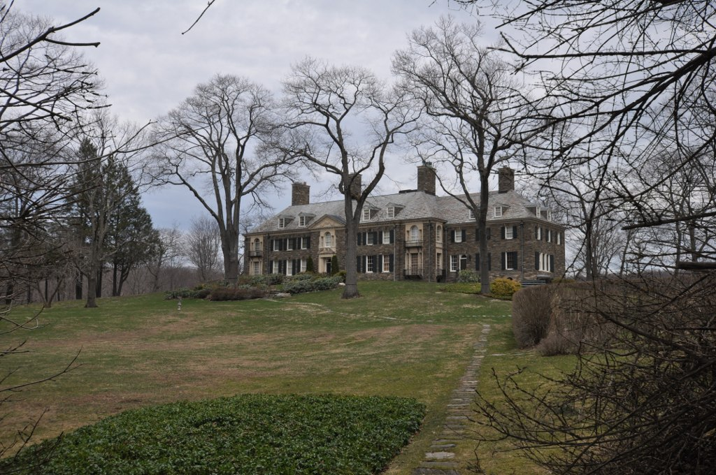 60 Oreneca Road, Ridgefield, CT; part of the West Mountain Historic District.